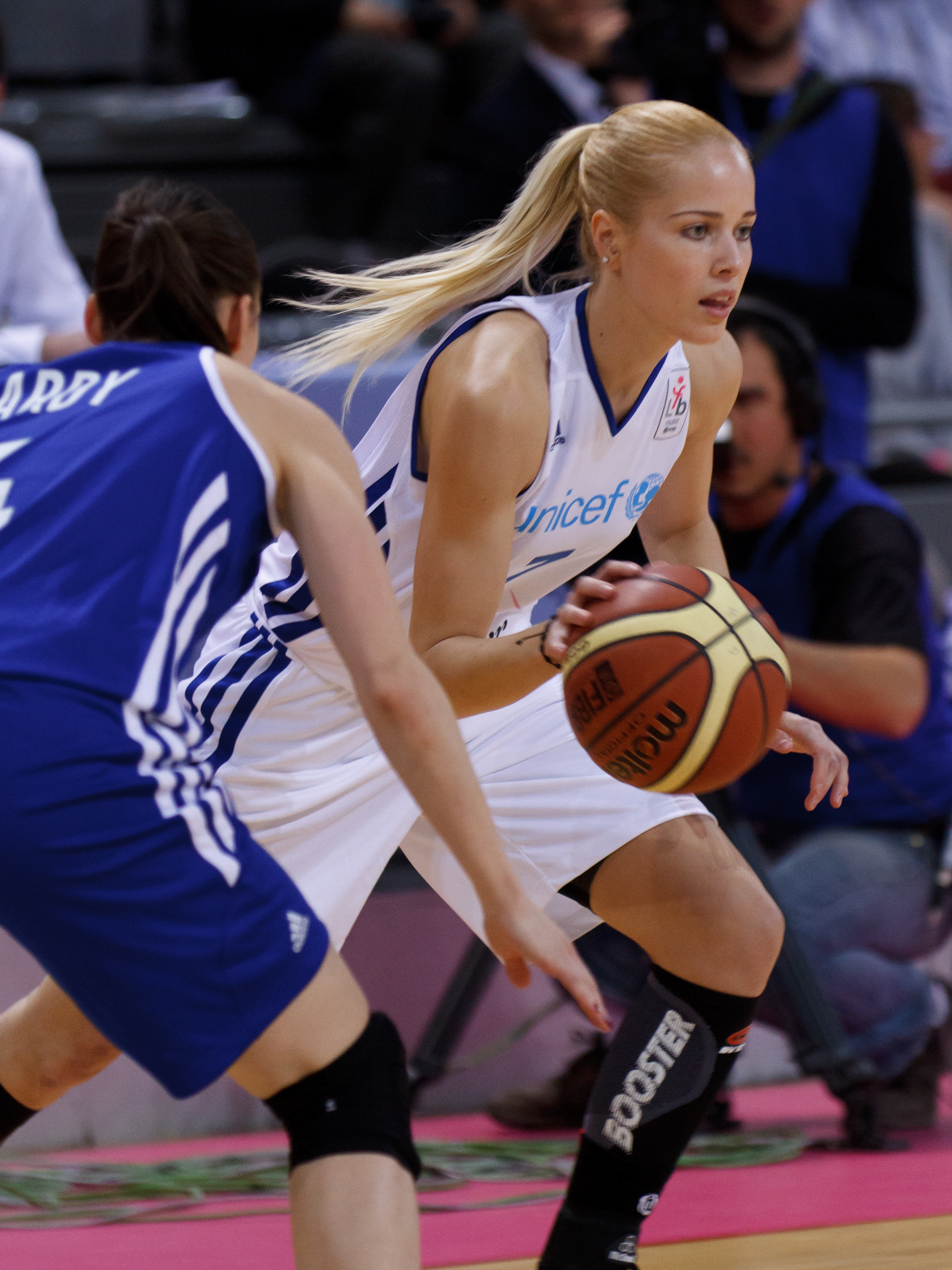 Antonija Mišura and Anaël Lardy, during exhibition game Championnes de cœur in Toulouse.